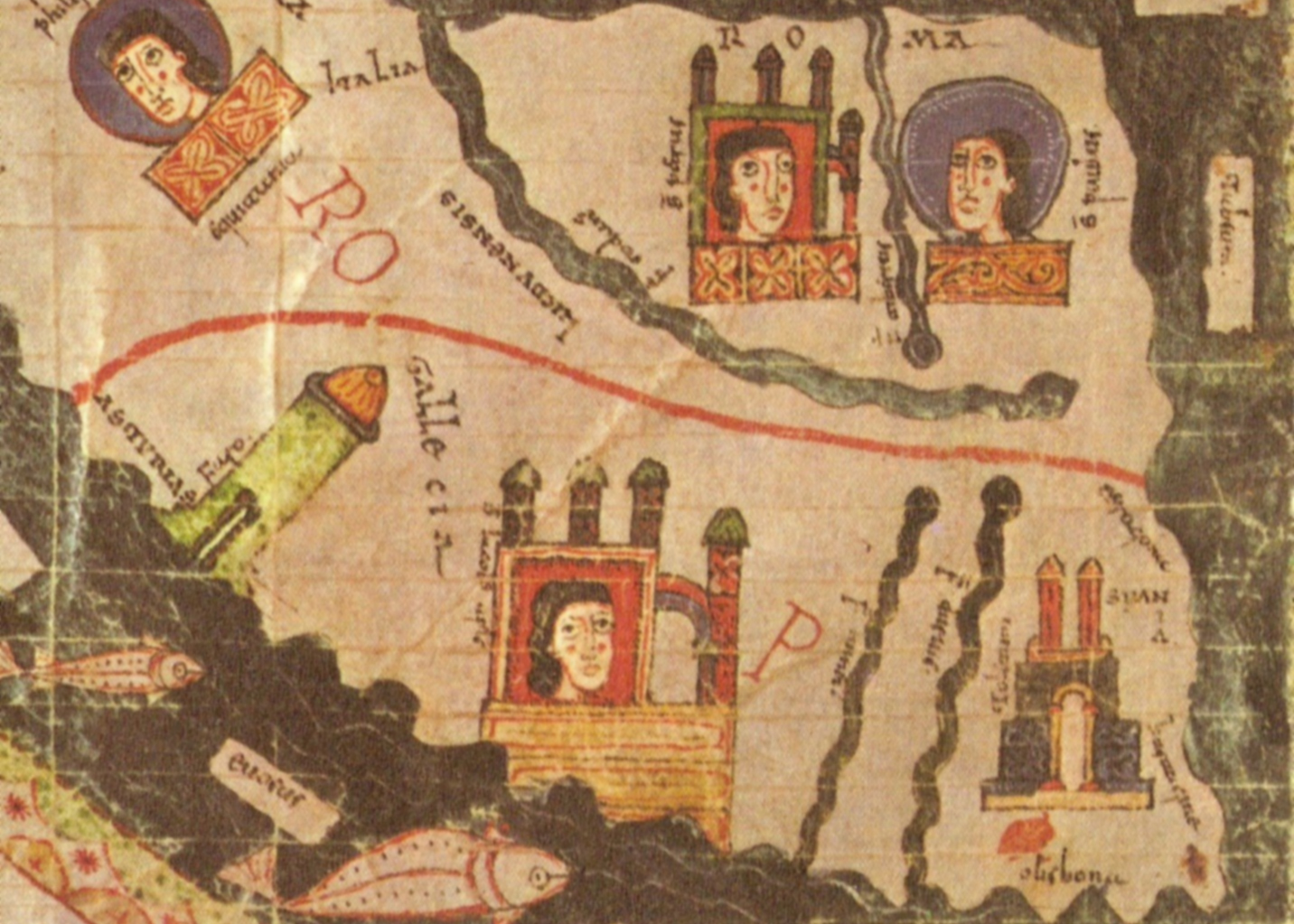 Western Europe, Beatus Osma. Year 1086